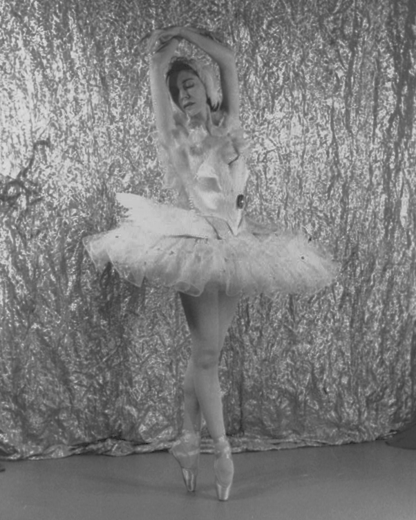 Portrait of Alicia Markova, "The Dying Swan"Portrait of Alicia Markova, "The Dying Swan"